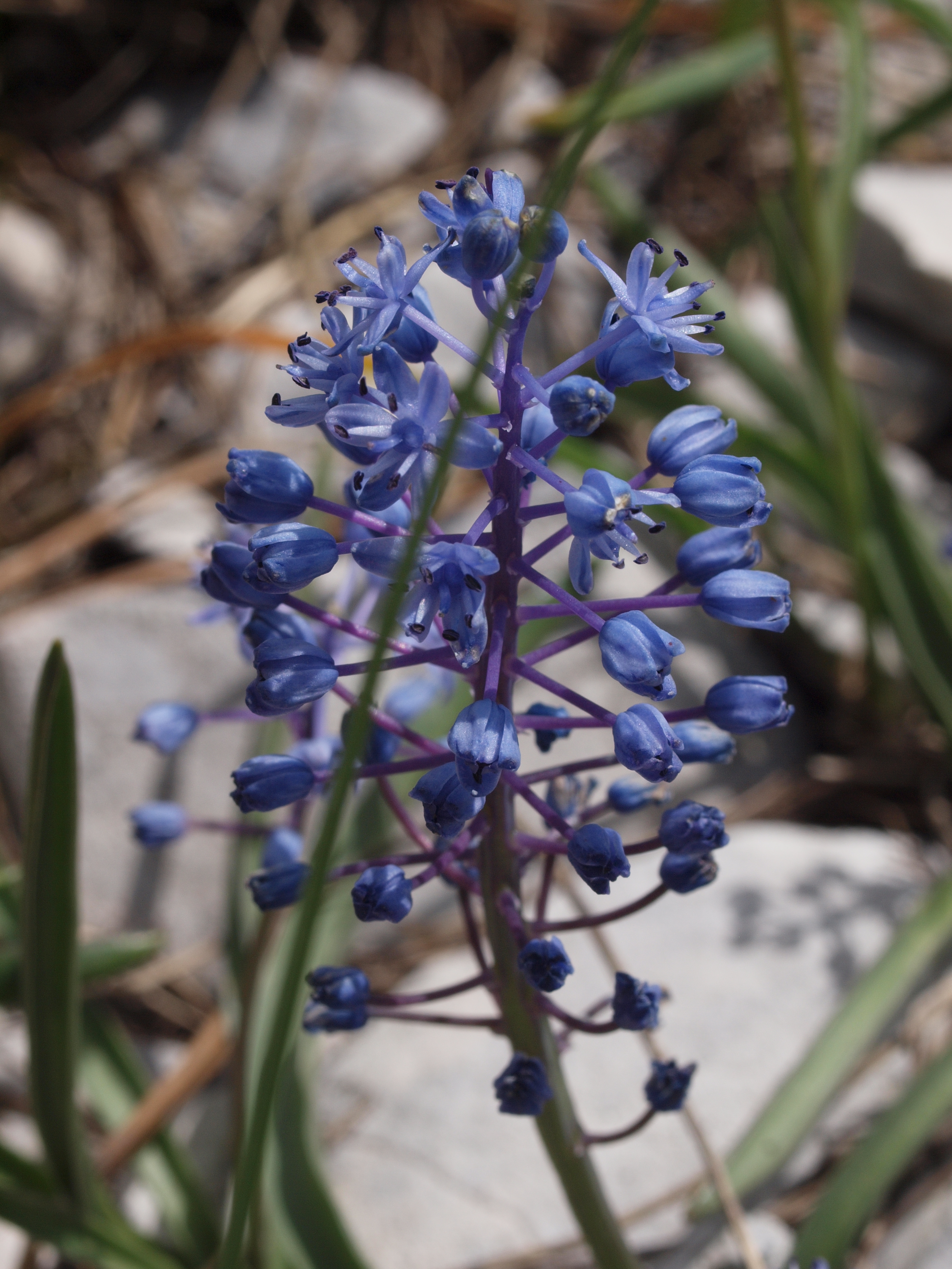 Scilla lakusicii